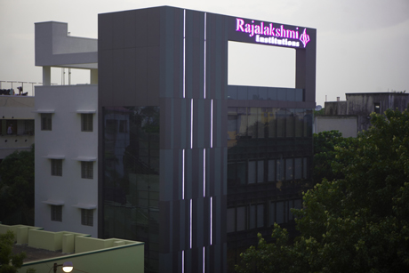 This Photo Describes the Rajalakshmi Institutions Main Head Office